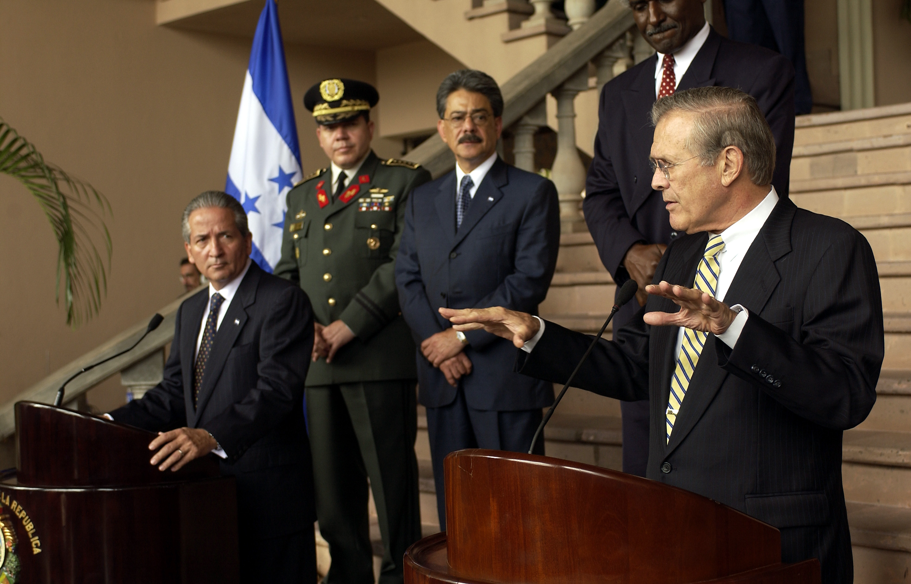 Secretary of Defense Donald H. Rumsfeld (right) answers a question from the media during a joint press conference with Honduran President Ricardo Maduro (left) at the Presidential House in Tegucigalpa, Honduras, on Aug. 20, 2003. Rumsfeld is in Honduras to meet with Maduro and to thank the Honduran government for sending troops to Iraq in support of the coalition forces.